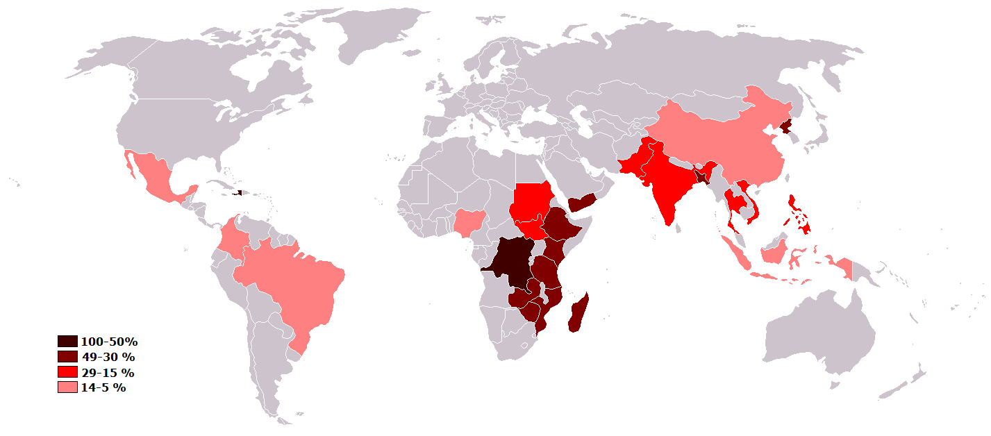 On this map marked with the country in which hunger and more than five million people. Countries painted in different colors depending on the percentage of hungry people from the general population in the country. Map is made on the basis of Food and Agriculture Organization of the United Nations for 2002-2004.